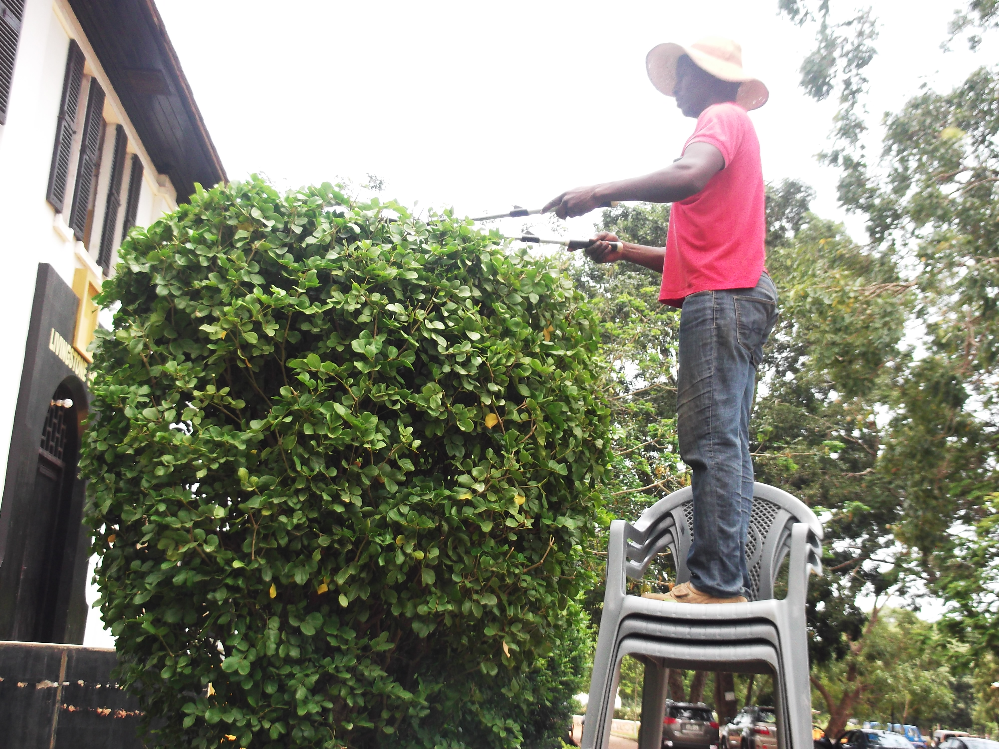 Gardener in a high school pruning a hedge This is an image of "African people at work" from Ghana